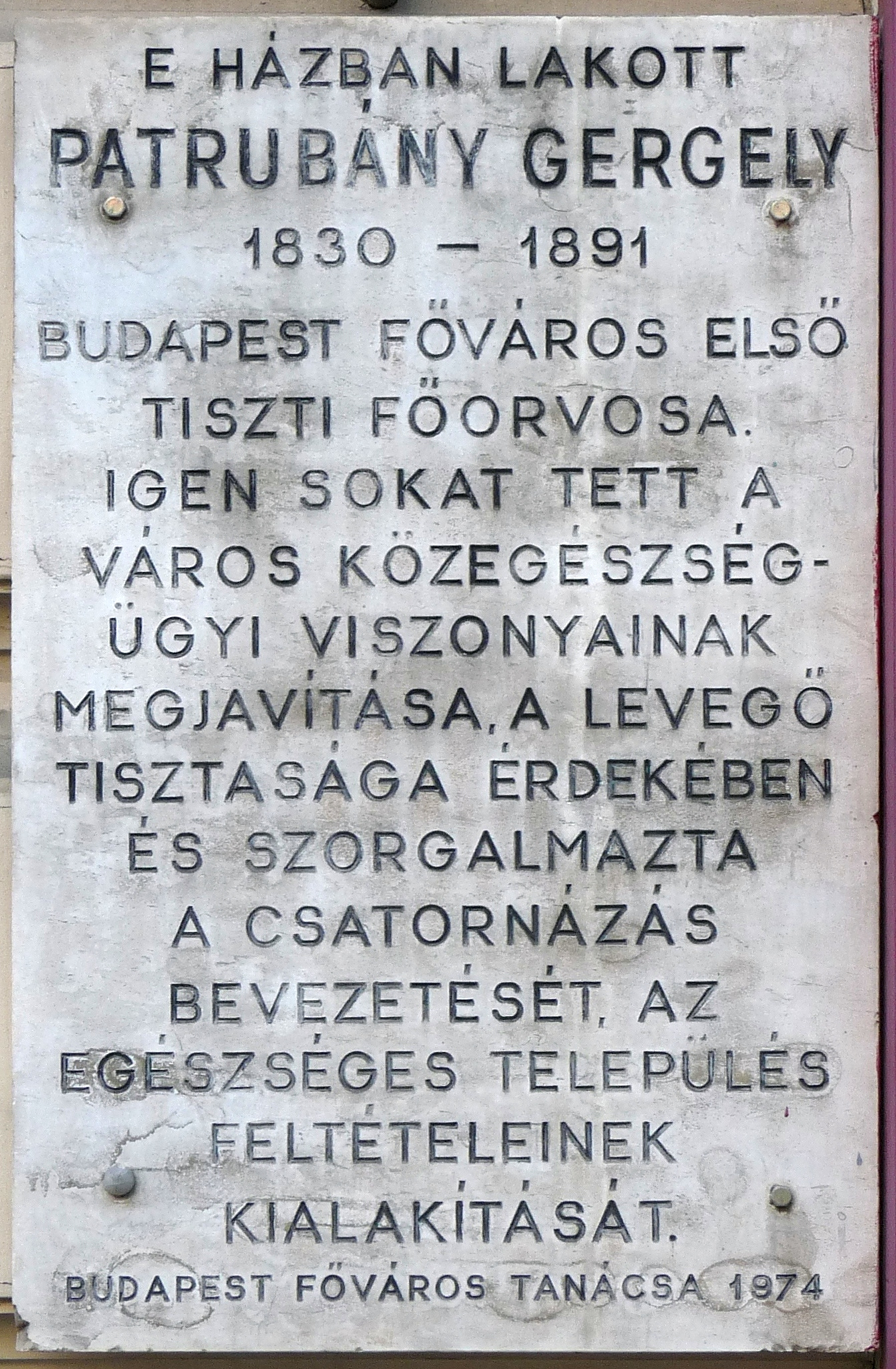 Commemorative plaque to Mr. Dr. Gergely Patrubány (1830-1891) Hungarian chief surgeon and university professor, first Chief Medical Officer of the capital Budapest. It was affixed to the wall of his former home in 1974. (Budapest, District IX, Vámház Boulevard 13)